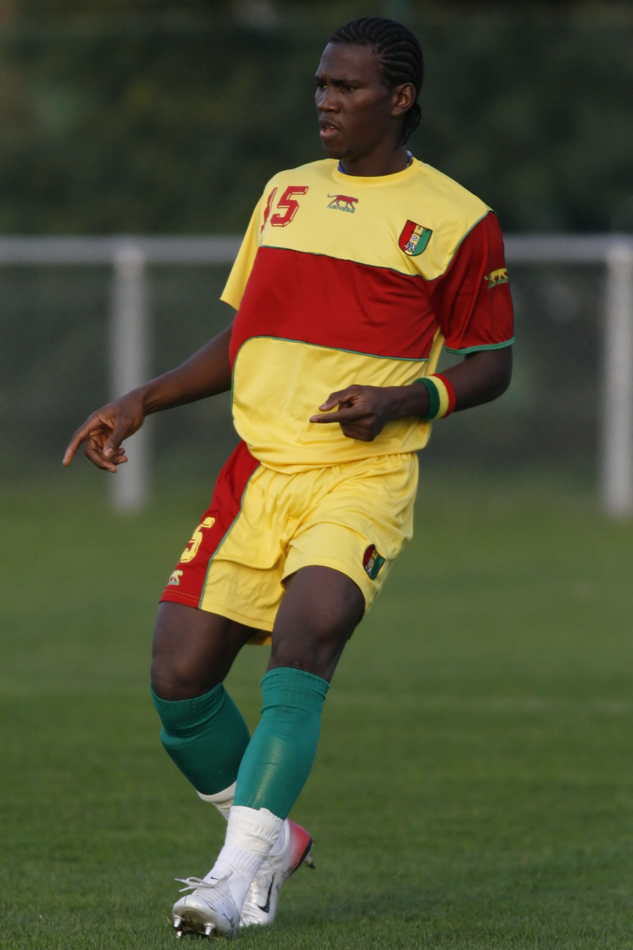 Oumar Kalabane, Guinean football player, during Guinean national team friendly match against the Stade Rennais youth team.